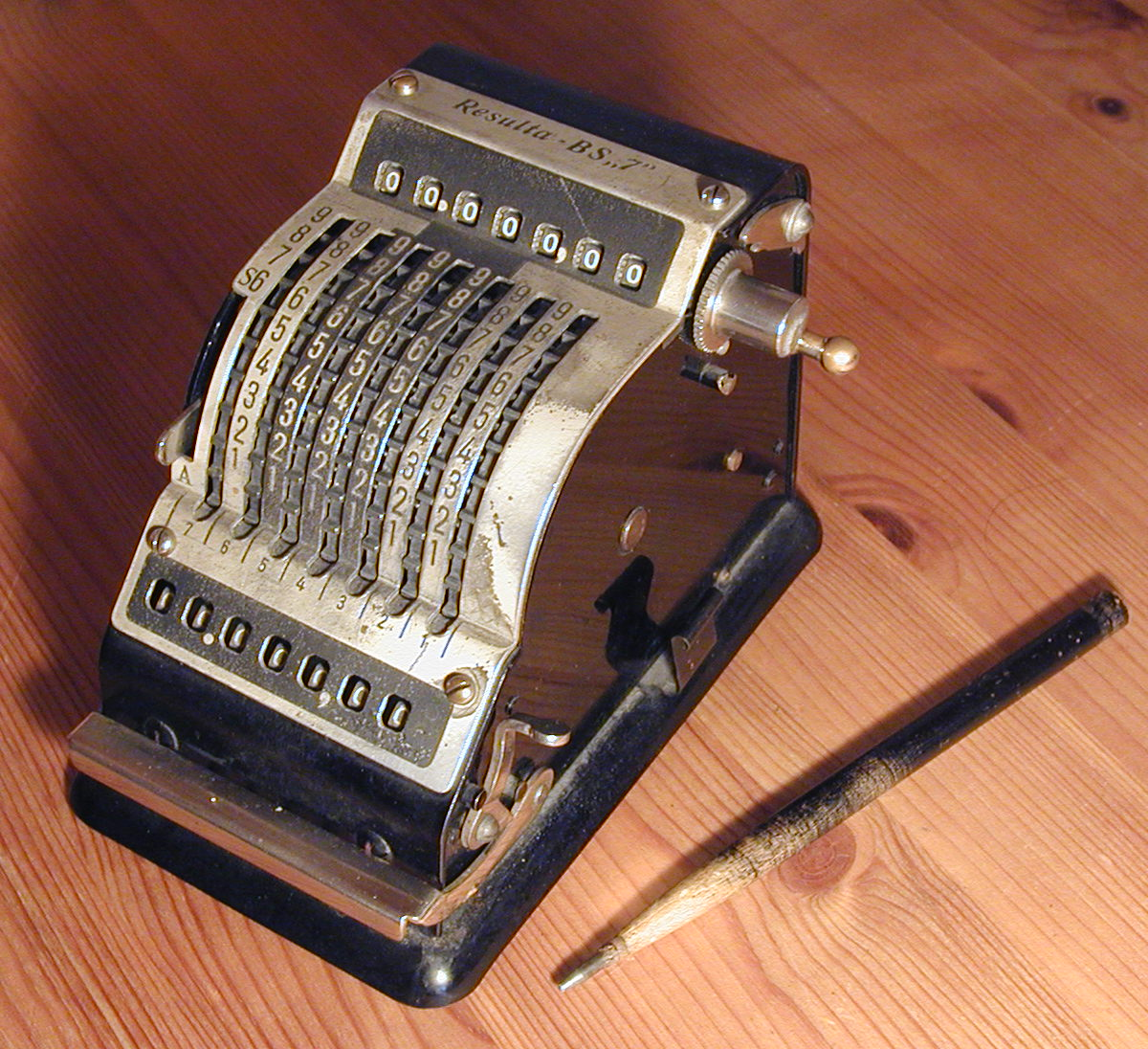 Mechanical calculating machine. Picture taken and uploaded by Roger McLassus (owner).